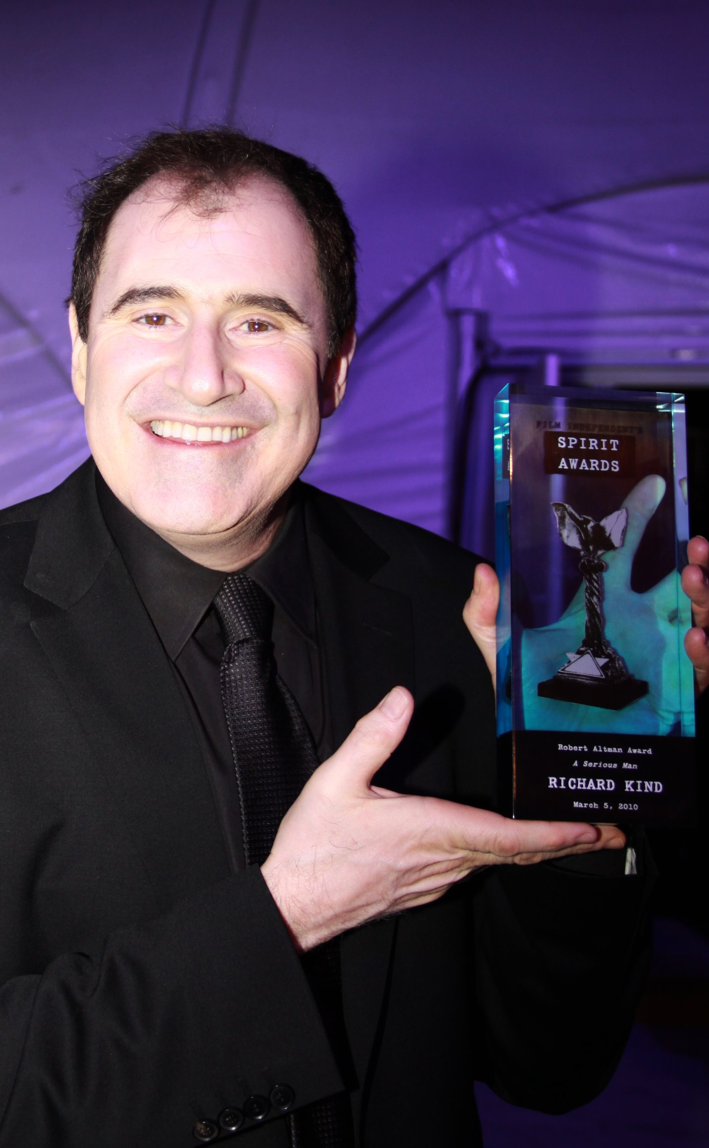 Richard Kind holds the Robert Altman Award given to the film "A Serious Man" at the Independent Spirit Awads in Los Angeles on March 5th, 2010.